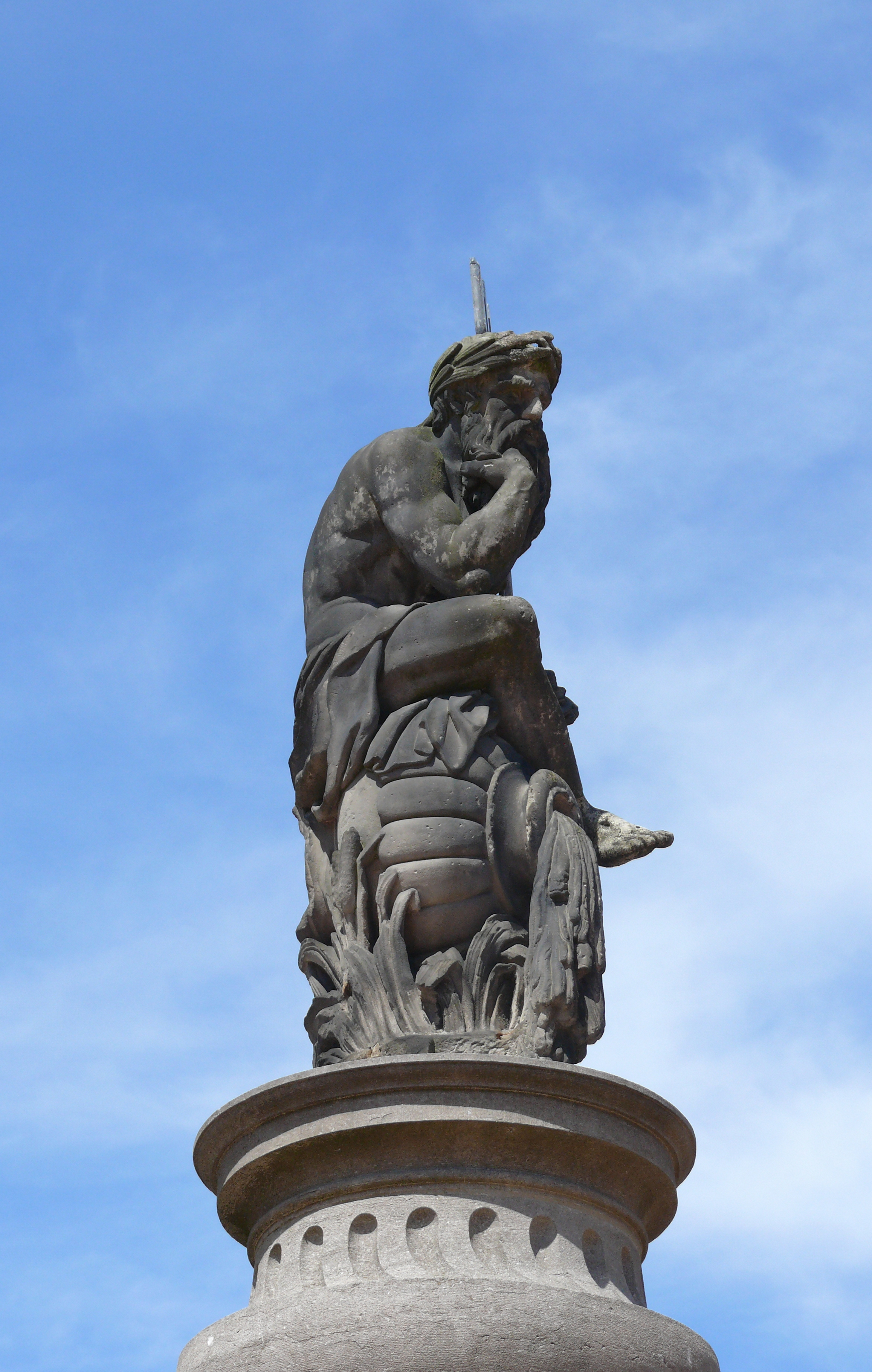 Statue of Neptune in Mechelen. The statue is also called Vadderik (lazy fat man). It is part of a water fountain erected in 1718. It was made by the sculptor Frans Langhmans, a sculptor from Mechelen, at the behest of the city council. The inscription reads SPQM or Senatus Populusque Mechliensis (the council and population of Mechlin).